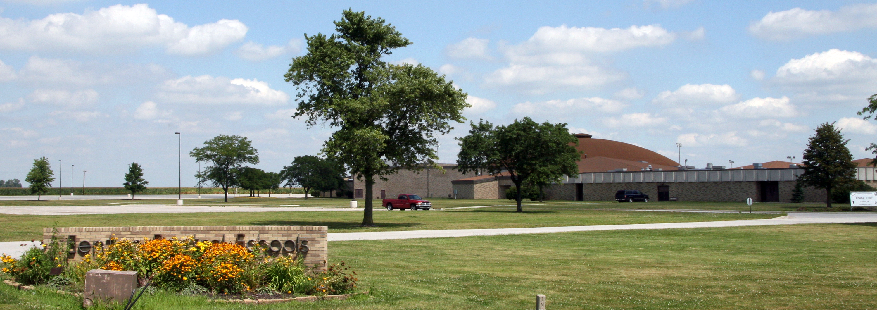 Benton Central Junior/Senior High School in Benton County, Indiana. Photo looks northeast.